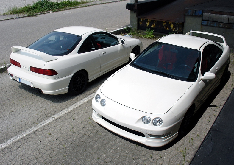 Selbstgeschossenes Foto zweier 1998er Honda Integra Type-R. new version: Removed black frames at top and bottom--NSX-Racer 10:29, 8 November 2006 (UTC)